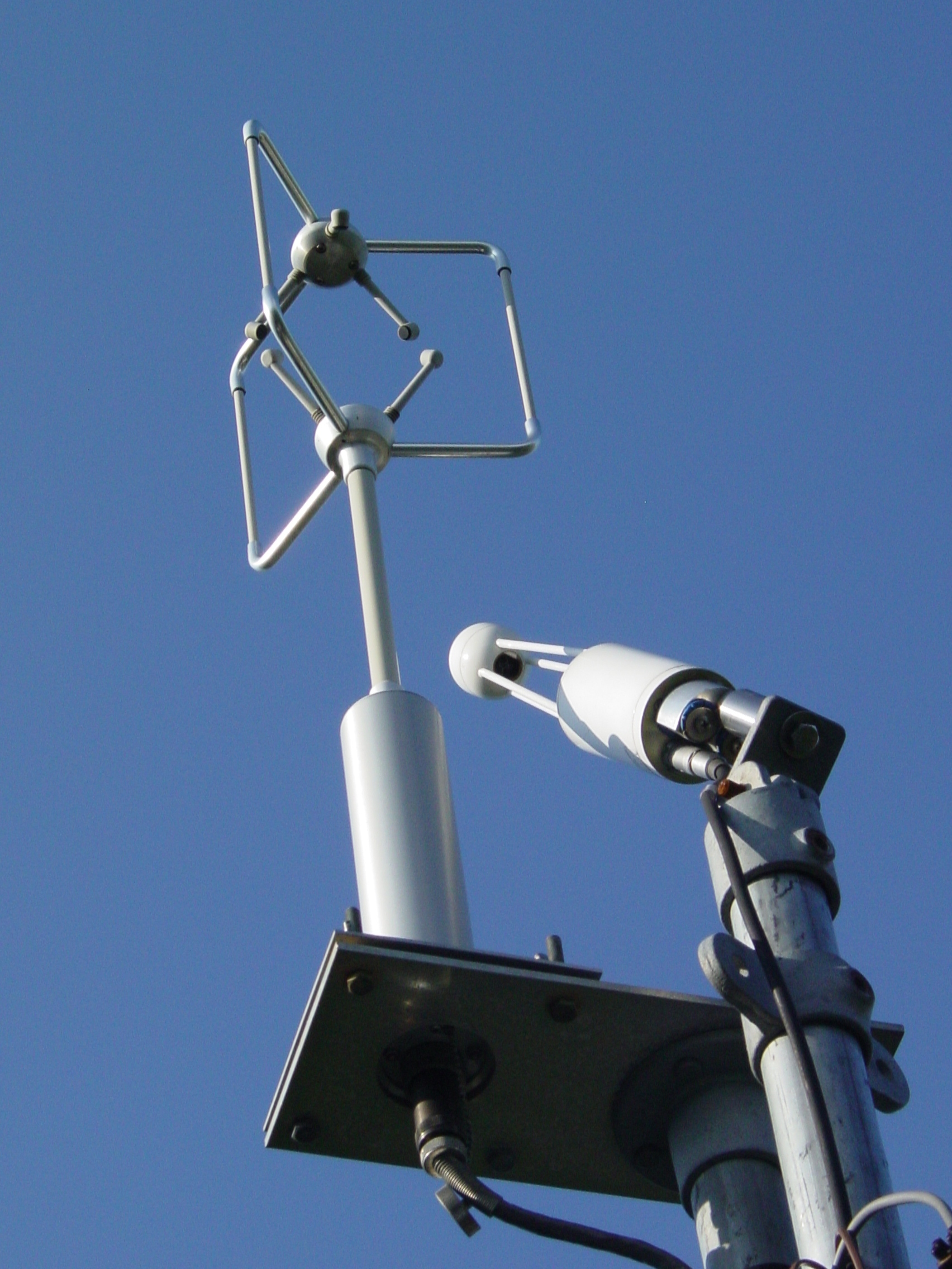 This is an open path eddy covariance system, consisting of an ultrasonic anemometer to measure 3D air flow and infrared gas analyser (IRGA) to measure carbon dioxide. This system is situated at the top of a 20 metre high tower above a forest.